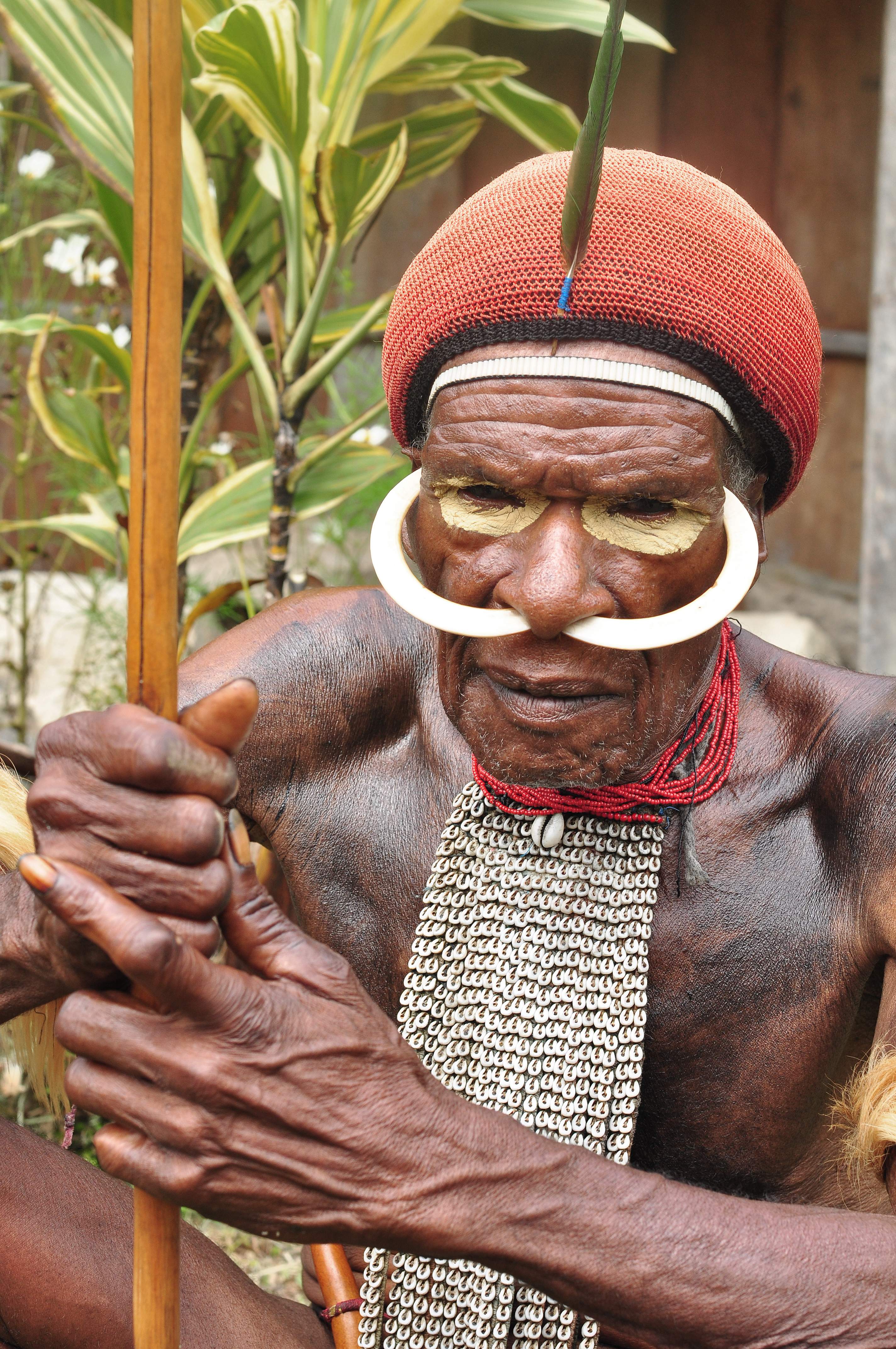 Dani people tribesman with face ornament.